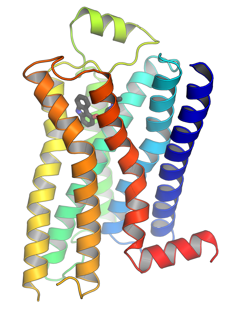 The human beta-2 adrenergic receptor, a G protein-coupled receptor, shown in rainbow color from N-terminus (blue) to C-terminus (red) with the extracellular surface at the top of the image. The partial inverse agonist carazolol is shown as gray sticks. Rendered using PyMol from PDB ID 2RH1.